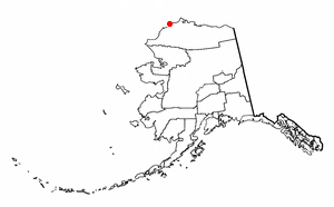 Adapted from Wikipedia's AK borough maps by Seth Ilys.